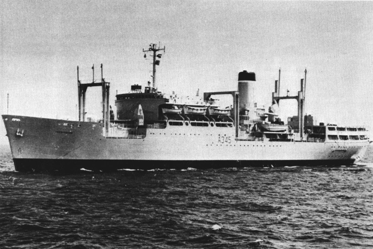 The Royal Navy fleet stores ship RFA Tarbatness (A345), circa in the 1970s. Tarbatness was aquired by the U.S. Military Sealift command on 30 September 1981 and served until 2008 as USNS Spica (T-AFS-9).